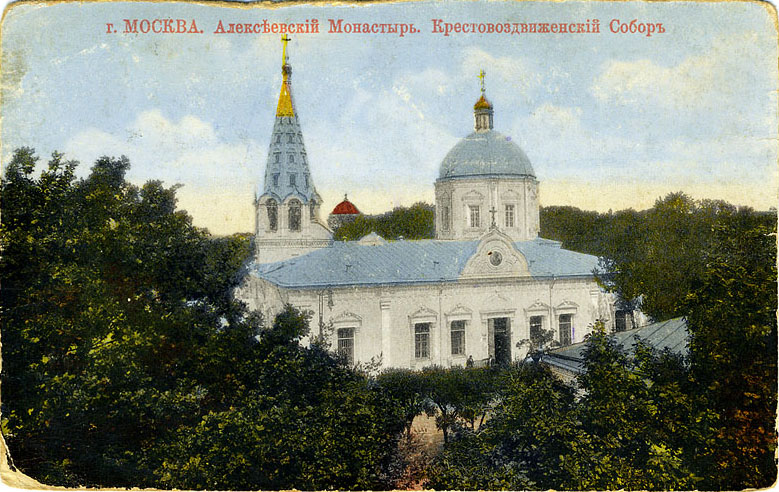 Novo-Alekseevsky Monastery in Moscow, 1913